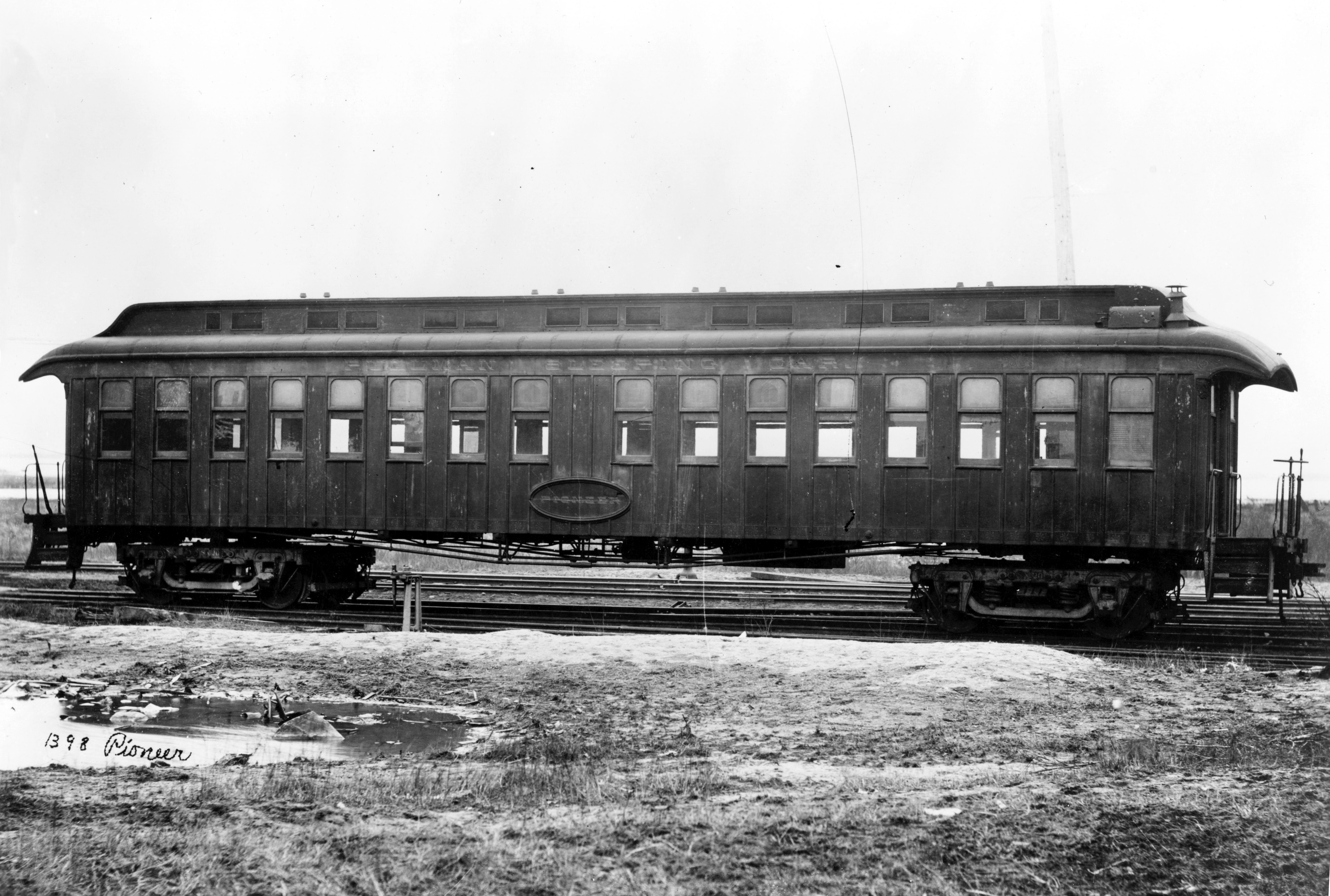 First Pullman sleeping car, exterior.